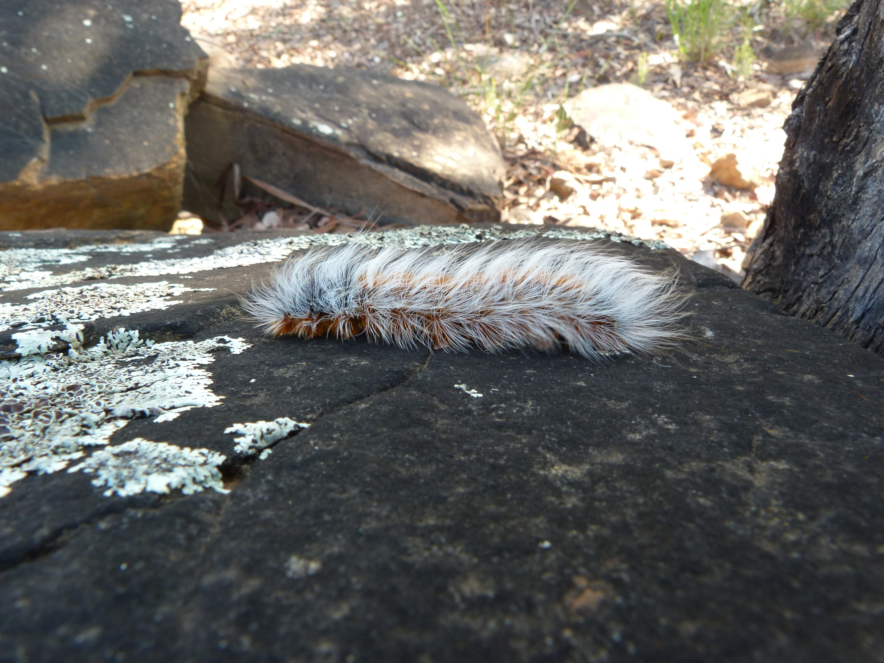 Anthela varia (Walker, 1855), larva, Black Mountain, Canberra, ACT, 22 February 2011